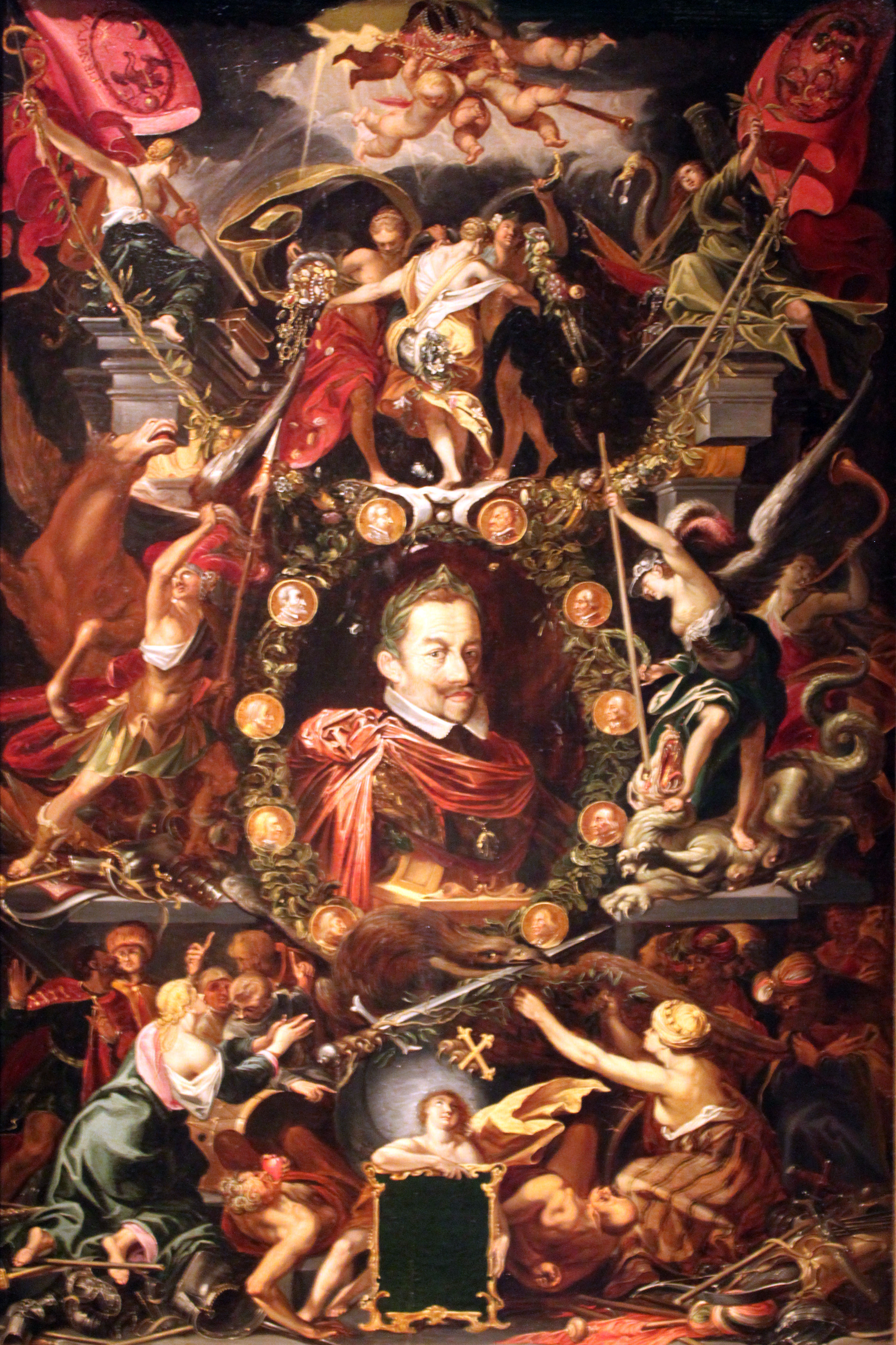 Allegory on the reign of Emperor Matthias (1557-1619)label QS:Len,"Allegory on the reign of Emperor Matthias (1557-1619)" label QS:Lde,"Allegorie auf die Regierung des Kaisers Matthias (1557-1619)"